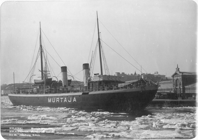 Icebreaker Murtaja in the port of Helsinki in the 1890s. Photographed by Karl Emil Ståhlberg (1862-1919).